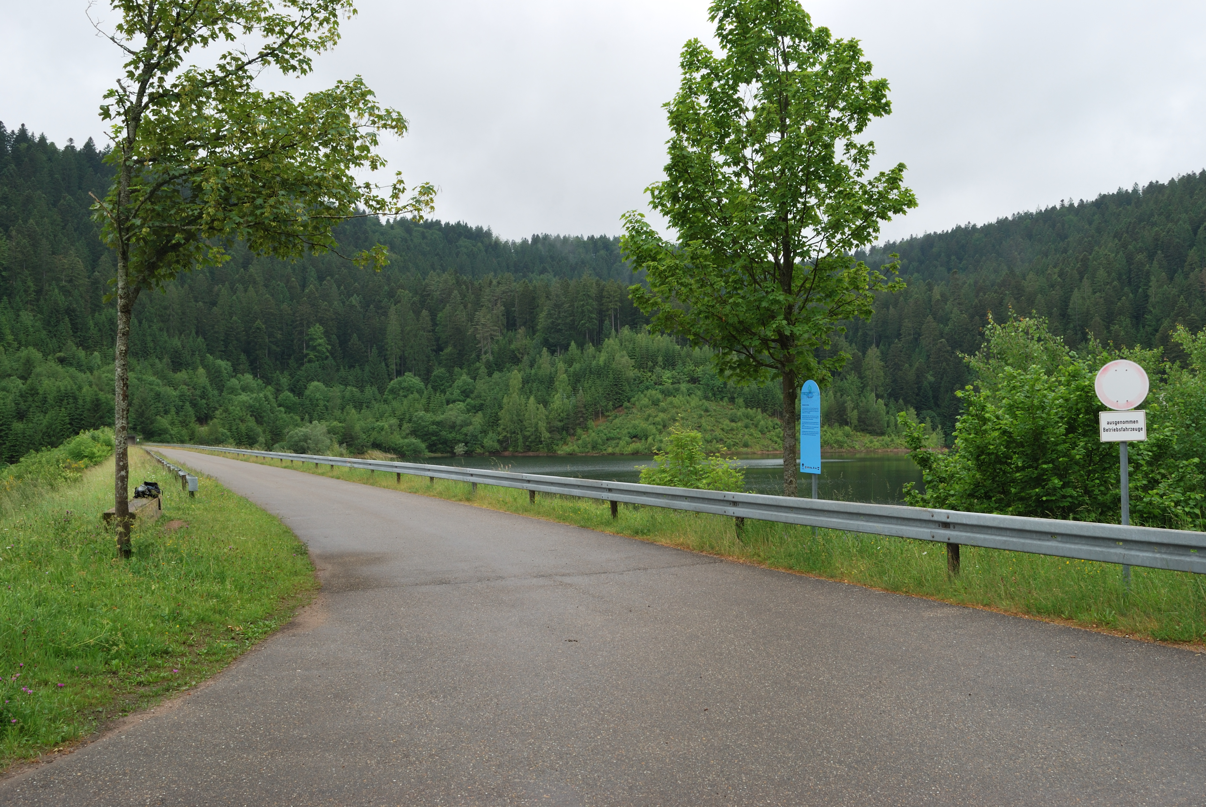 Road over the dam of the storage lake Kleine Kinzig near Alpirsbach in Black Forest in Germany.